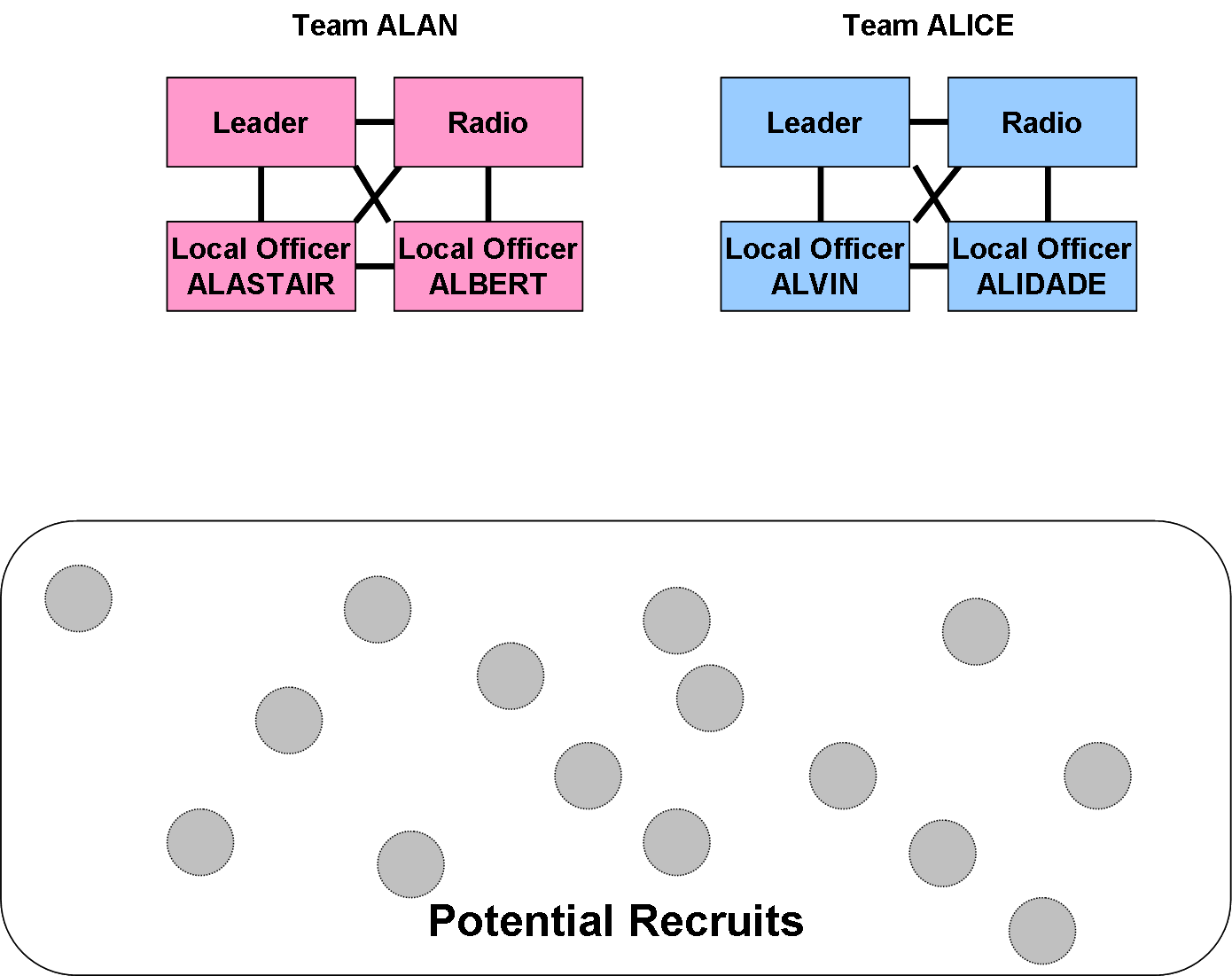 Initial presence of fully clandestine cell run by officers of a nation, no official cover